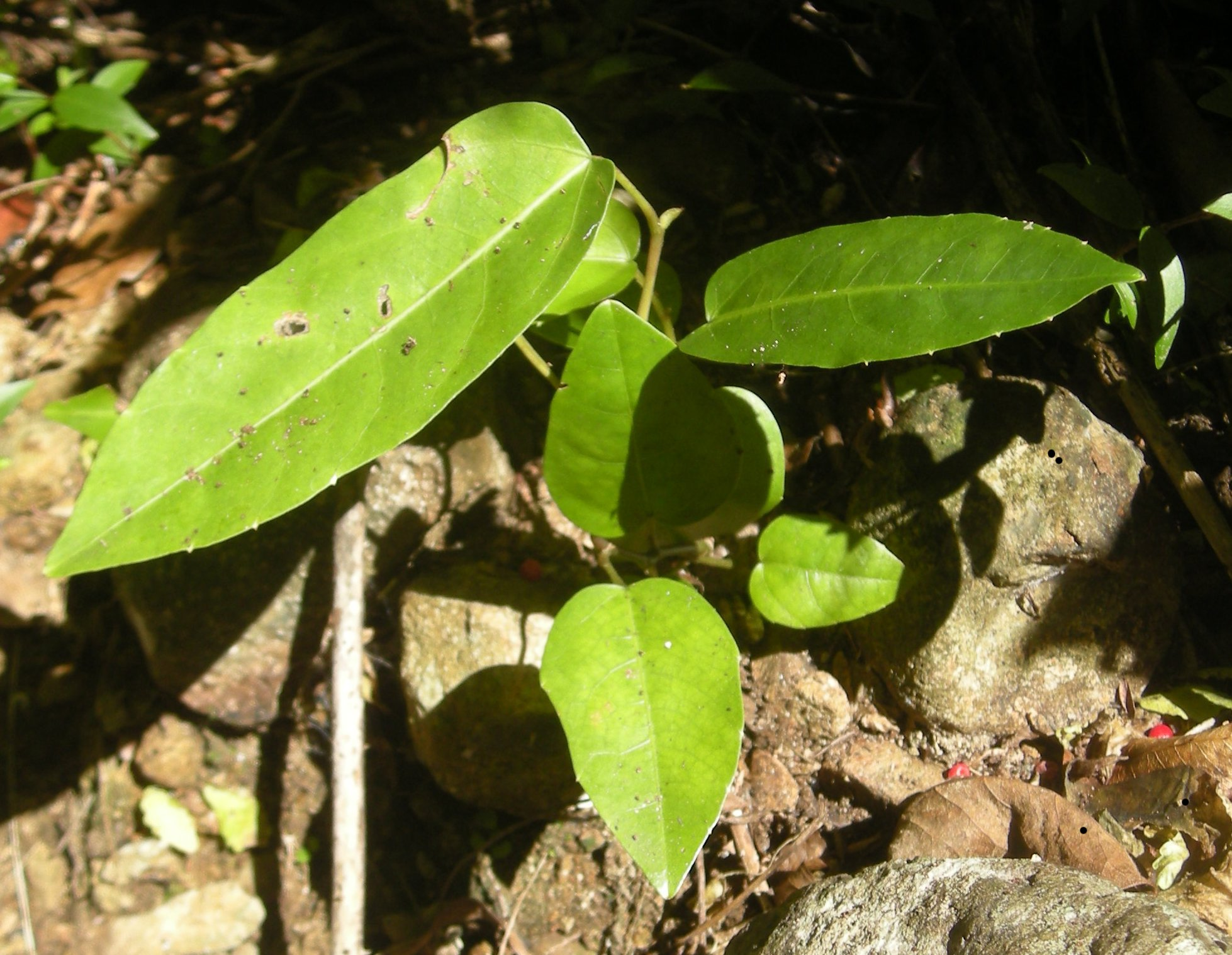 Cissus oblonga seedling